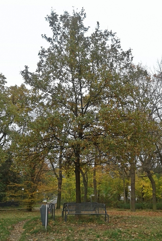 New pedunculate oak on the Schwabenplatz in Berlin-Biesdorf